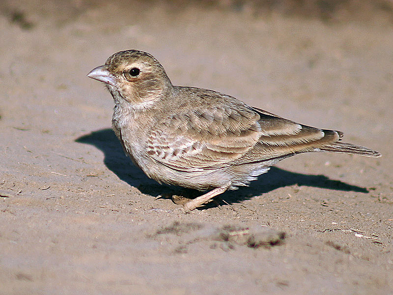 Ashy-crowned Sparrow Lark Eremopterix grisea at Keoladeo National Park, Bharatpur, Rajasthan, India.